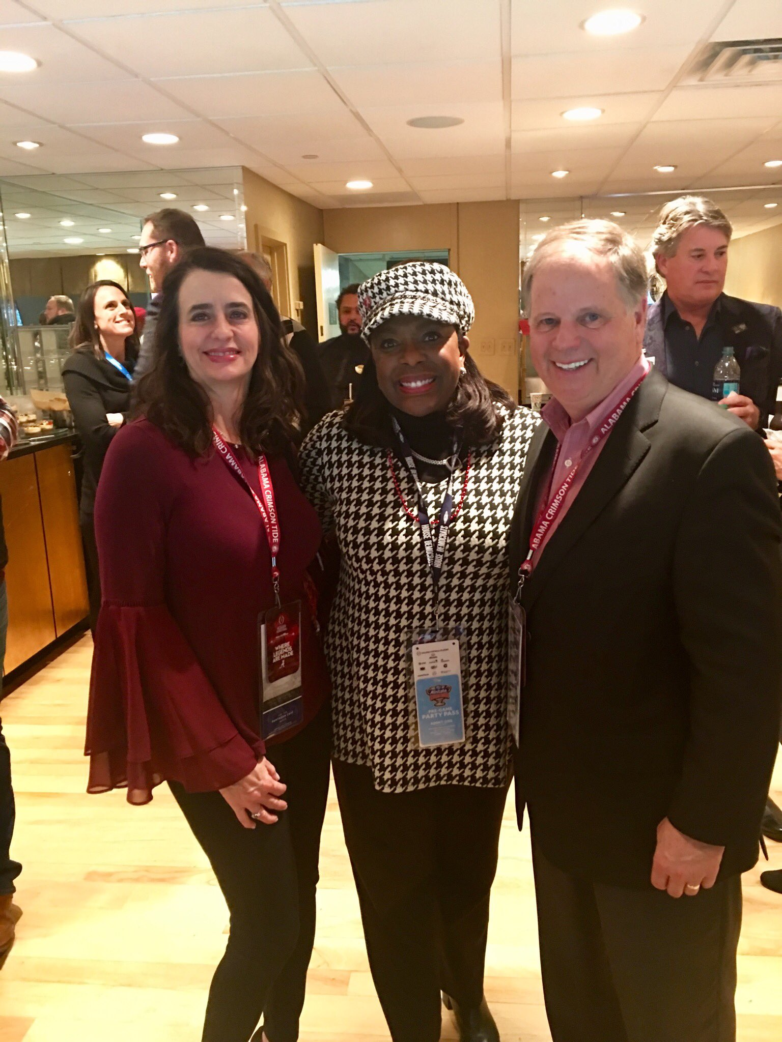 "In good company at the Sugar Bowl with Alabama’s Senator-elect @GDouglasJones and his lovely wife Louise!"